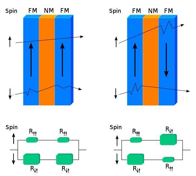 Spin Dependent Scattering in a multilayer spinvalve